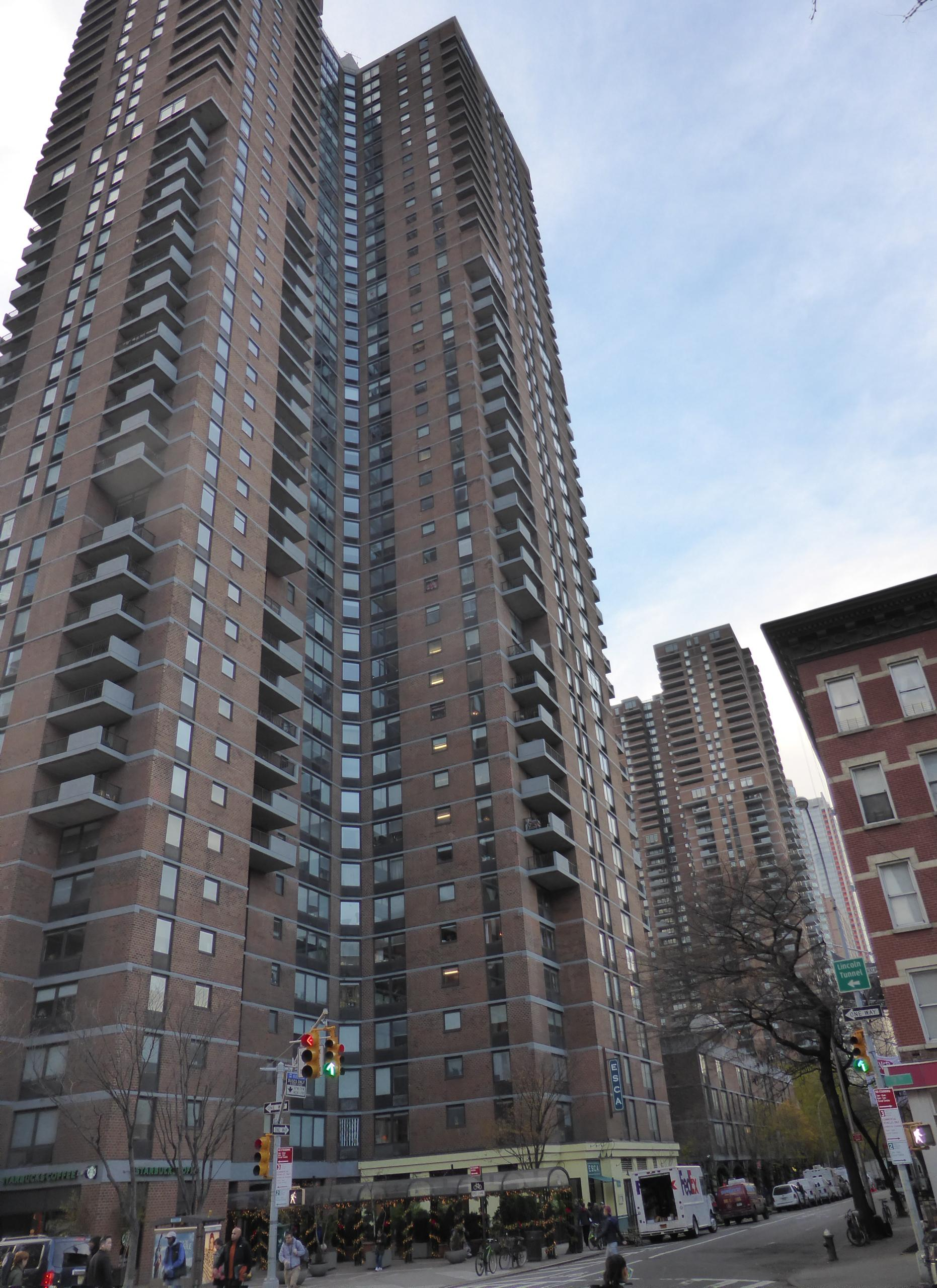 Manhattan Plaza, Hell's Kitchen, Manhattan, New York City, seen from Ninth Avenue/43rd Street